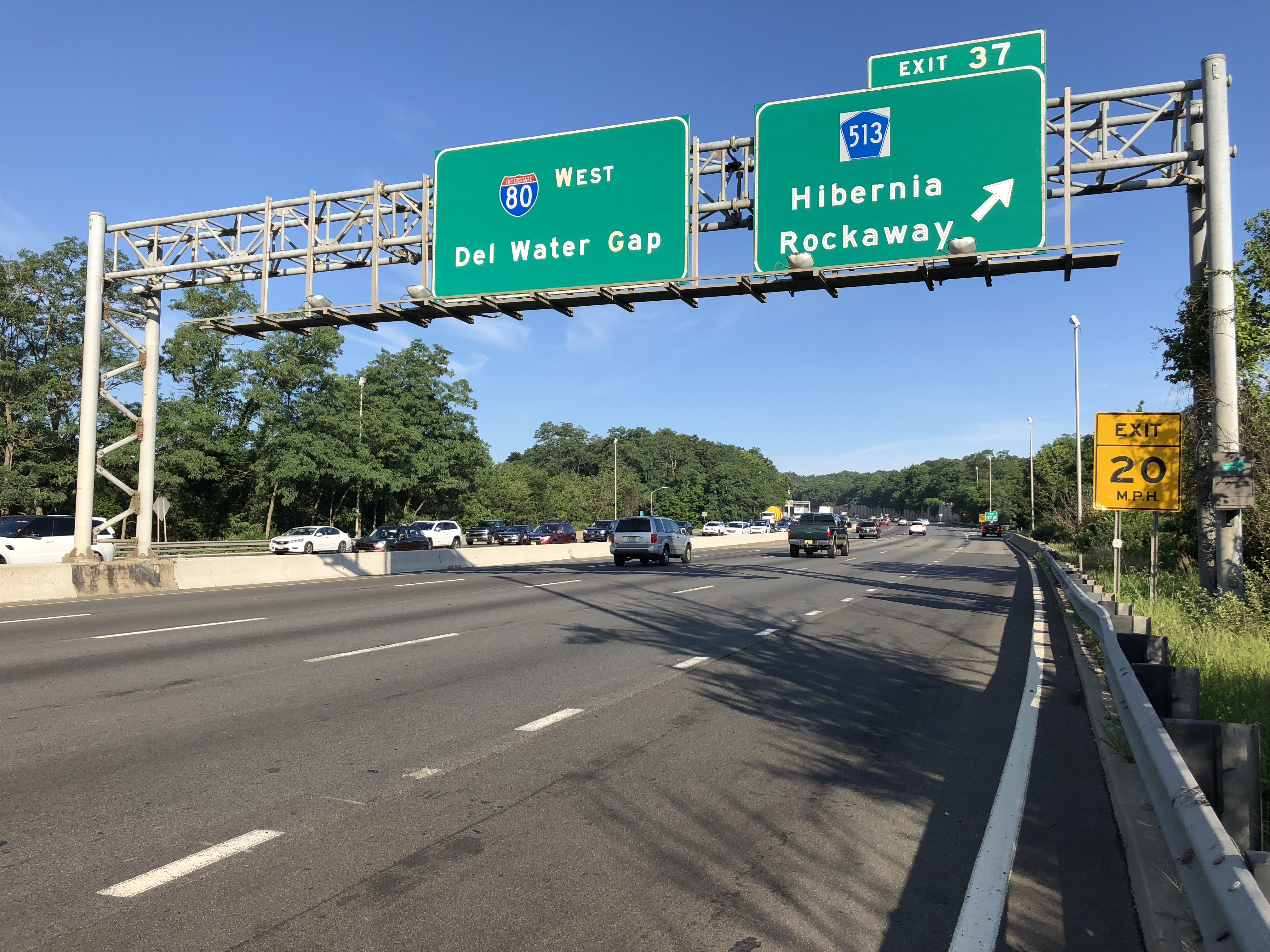 View west along Interstate 80 at Exit 37 (Morris County Route 513, Hibernia, Rockaway) in Rockaway Township, Morris County, New Jersey